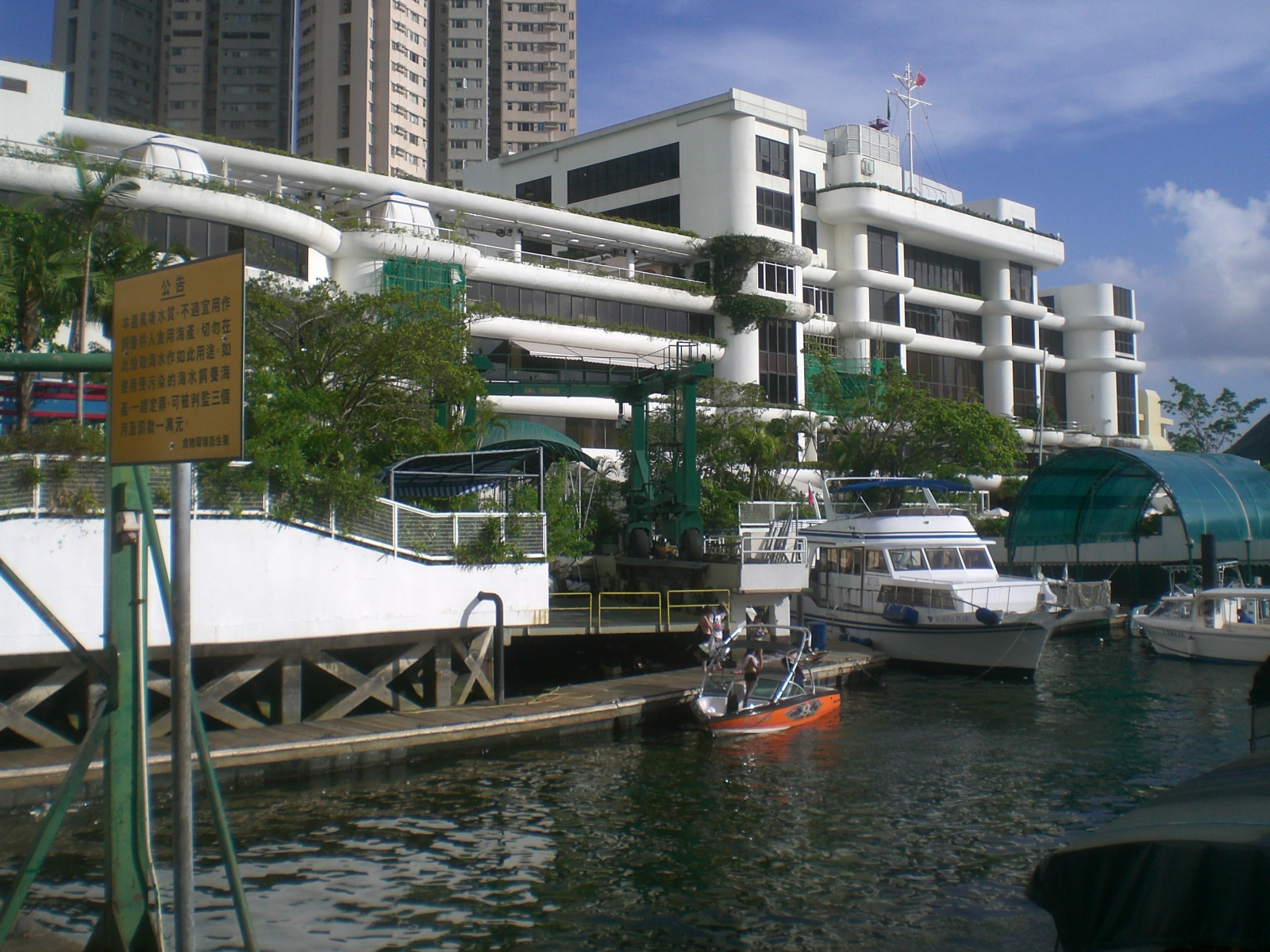 深灣道 深灣遊艇俱樂部 遊艇 碼頭